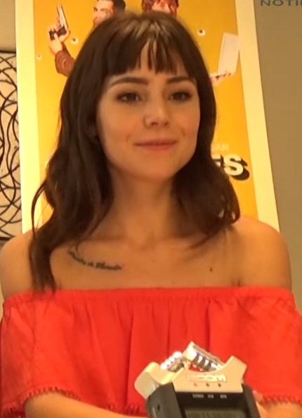 Camila Sodi in 2016